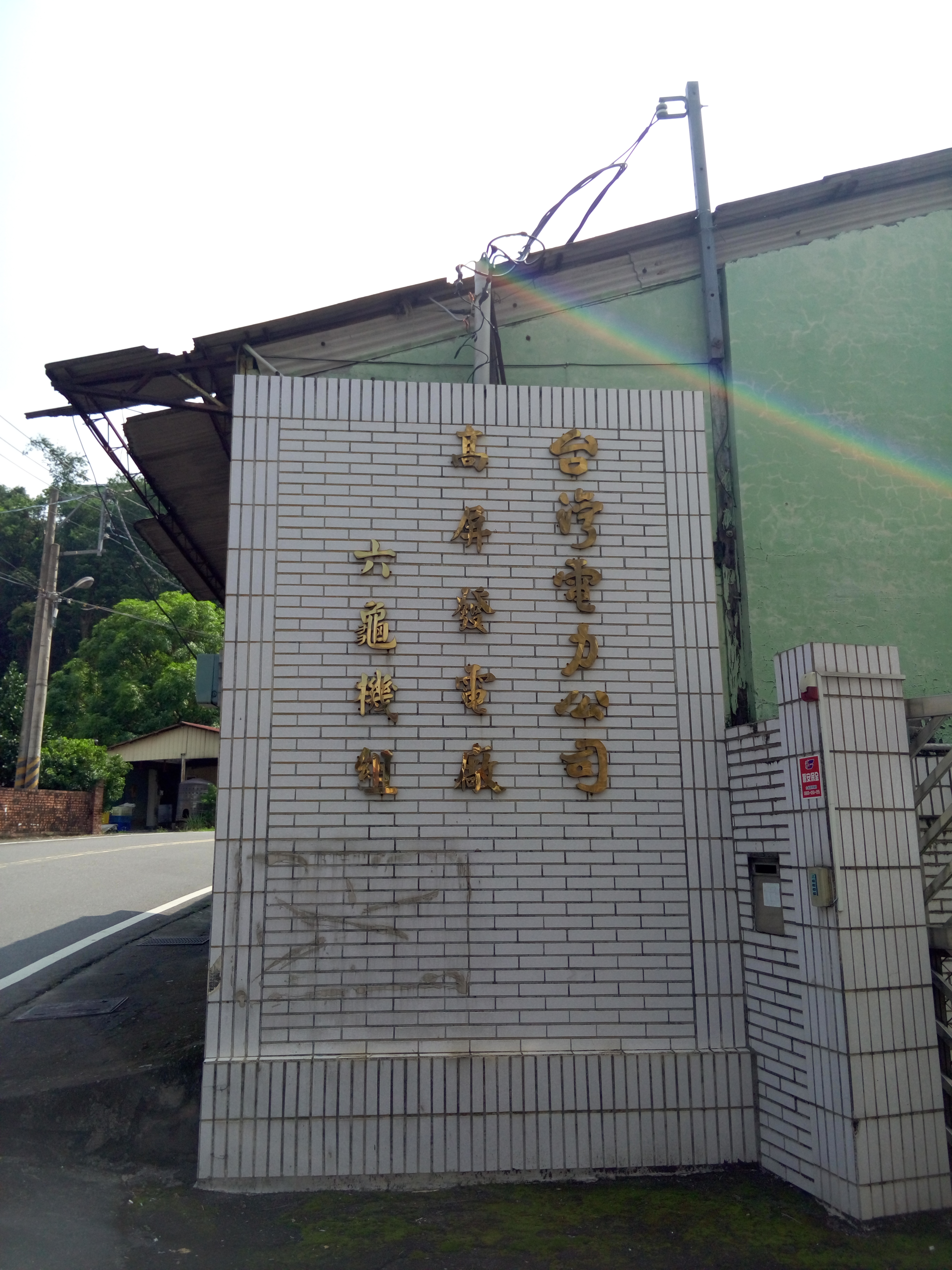 Kao-Ping Hydropower Plant Liouguei Unit